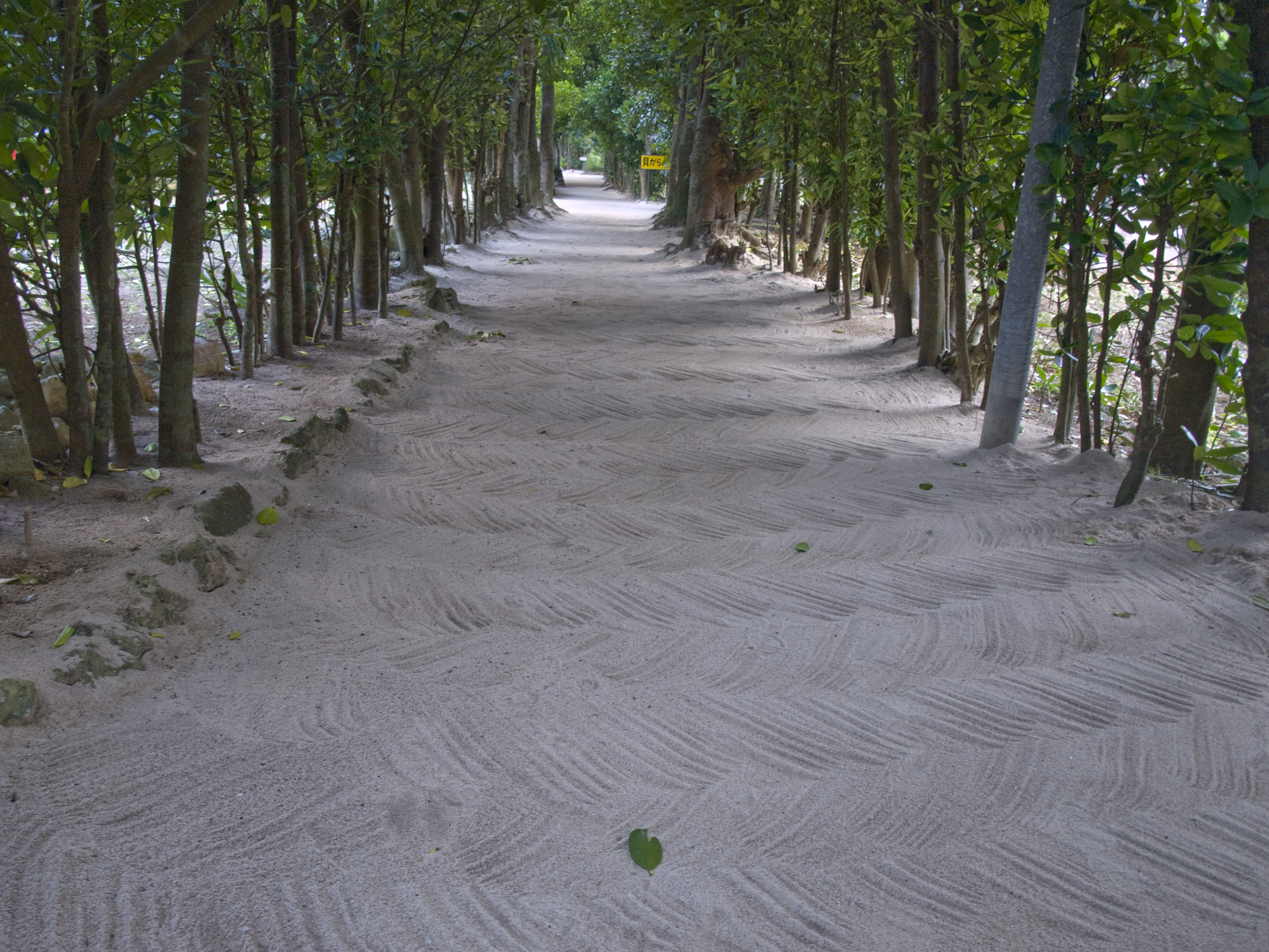 Path of fukugi (Garcinia subelliptica) in morning near Cape Bise, Motobu Peninsula, Motobu, Okinawa Prefecture, Japan.